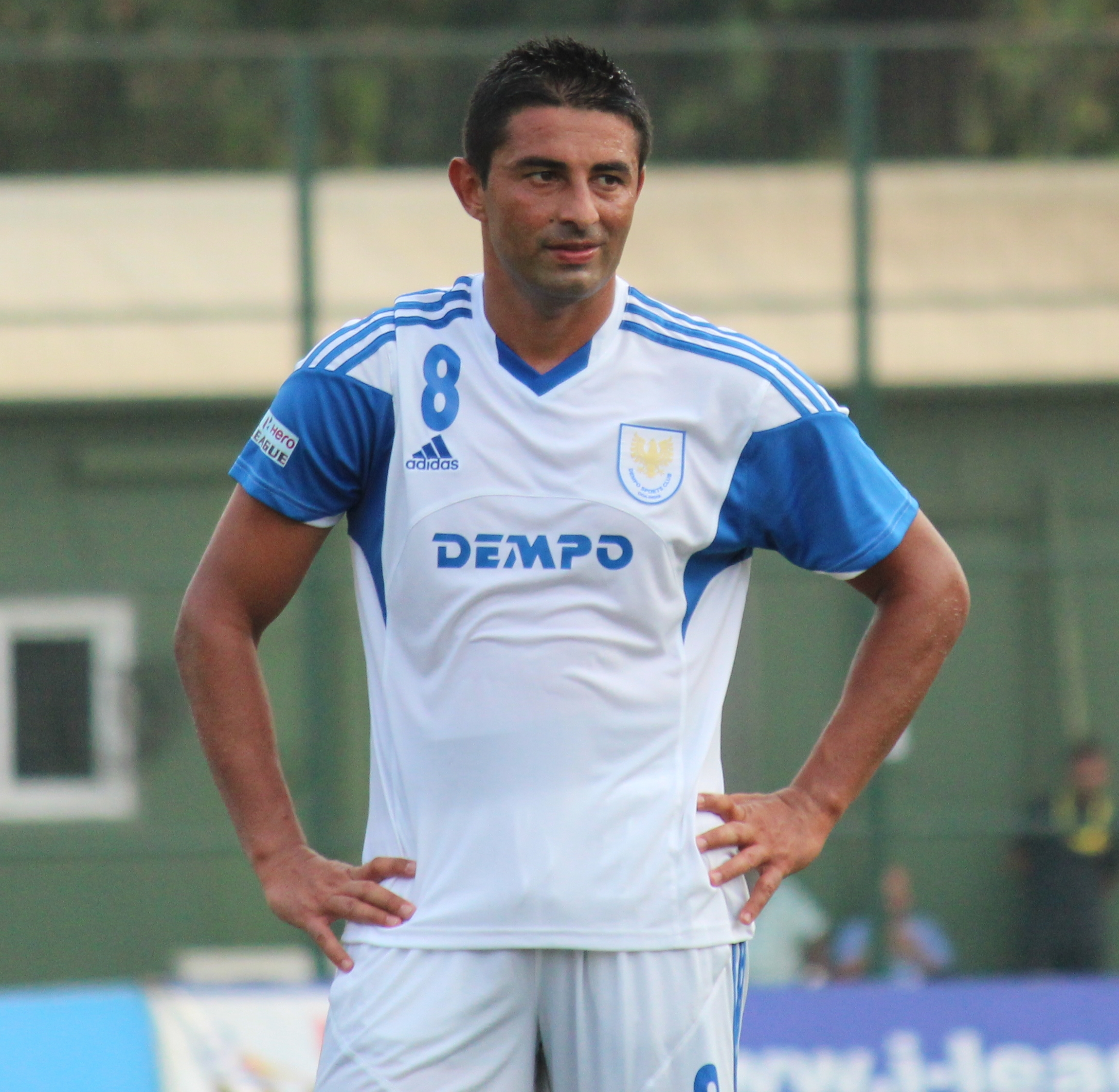 Carlos Hernández during Mumbai FC 0-1 Dempo game at Cooperage on April 11 2015